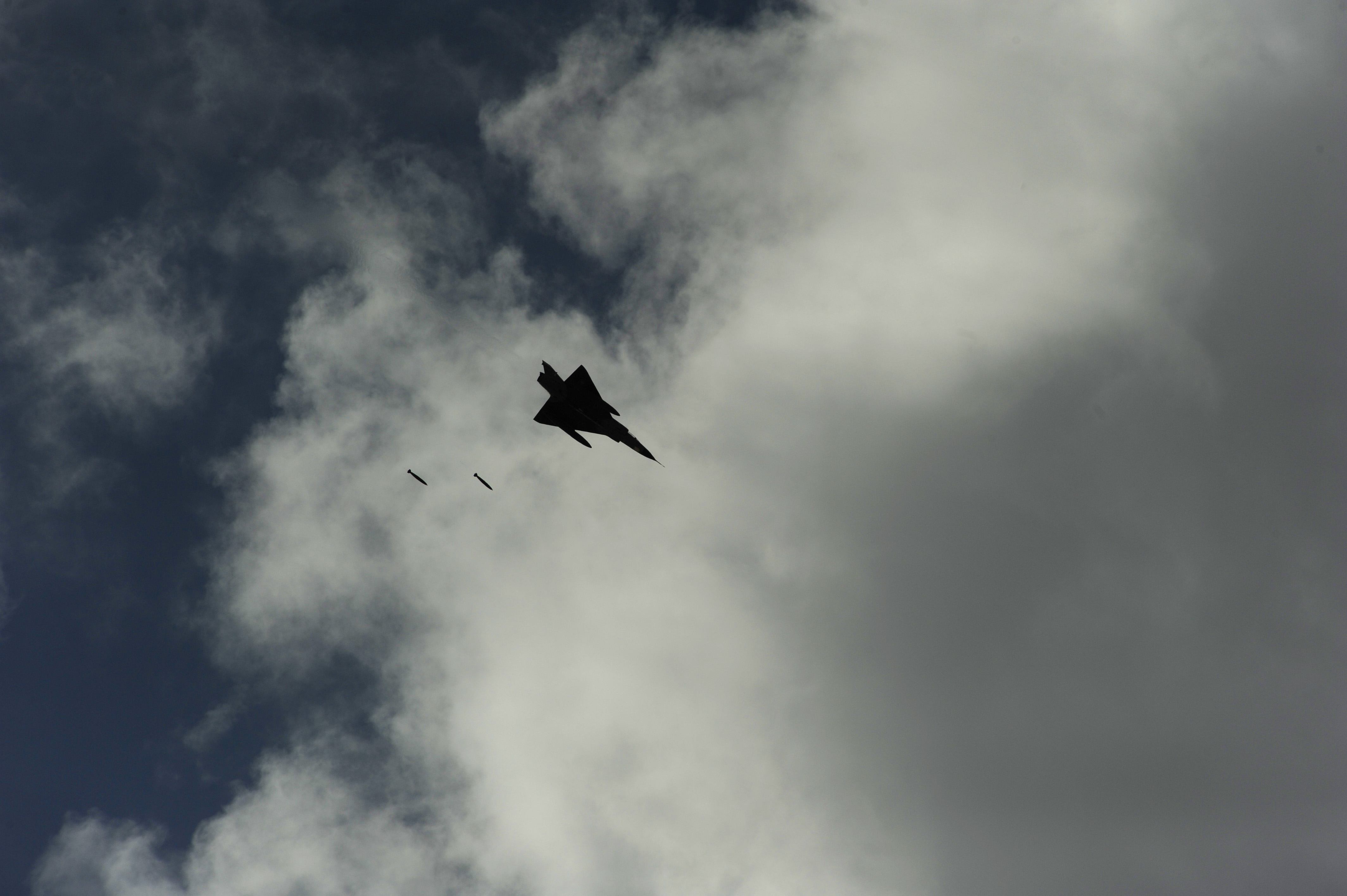 A Pakistani air force Mirage III aircraft drops two 500-pound bombs on a target during Falcon Air Meet 2010 at Azraq Royal Jordanian Air Base in Azraq, Jordan, Nov. 1, 2010. The United States, Jordan and Pakistan participated in Falcon Air Meet 2010 to improve international military relations and joint air operations. (U.S. Air Force photo by Staff Sgt. Eric Harris/Released)